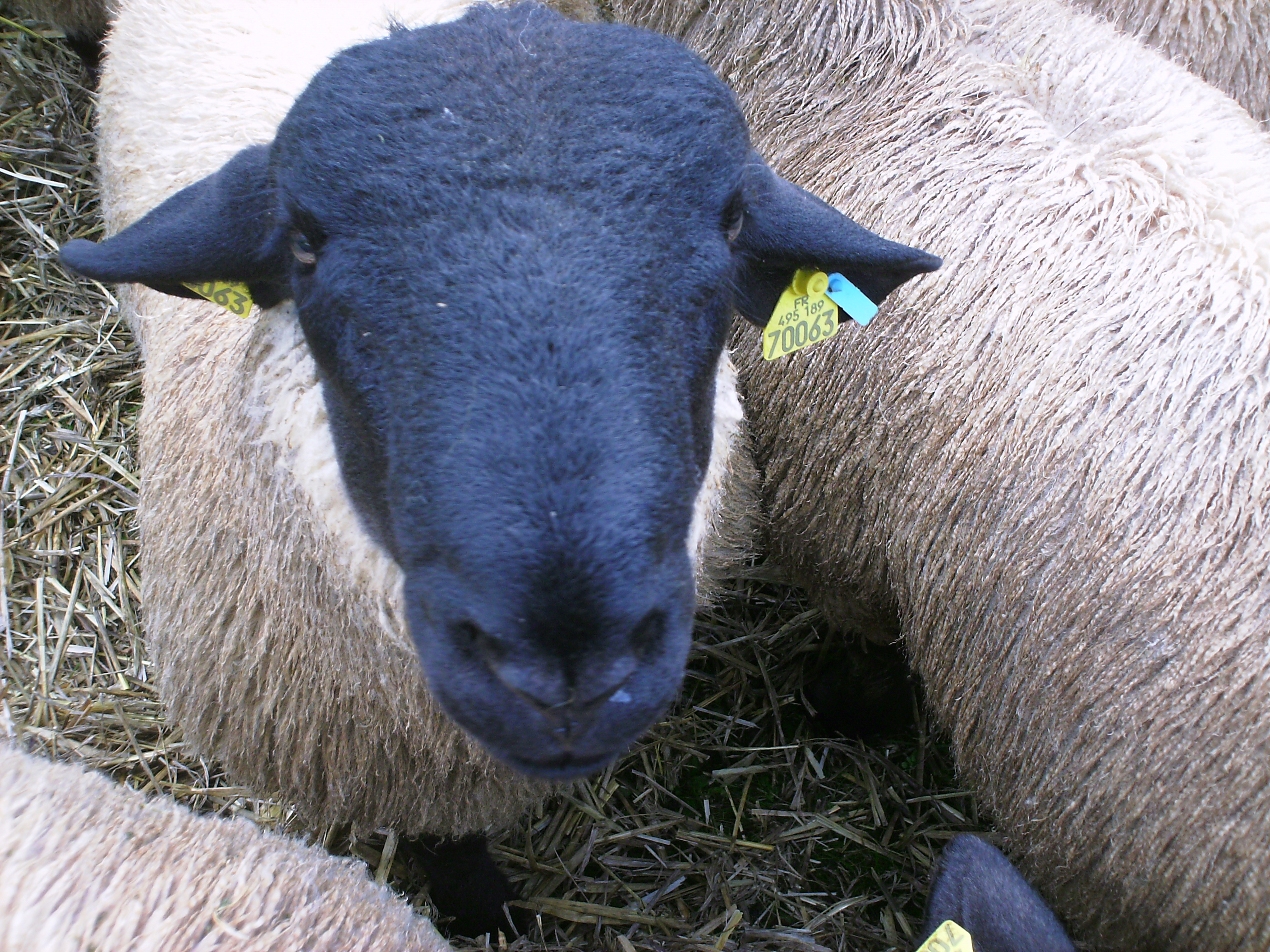 "Suffolk" head sheep